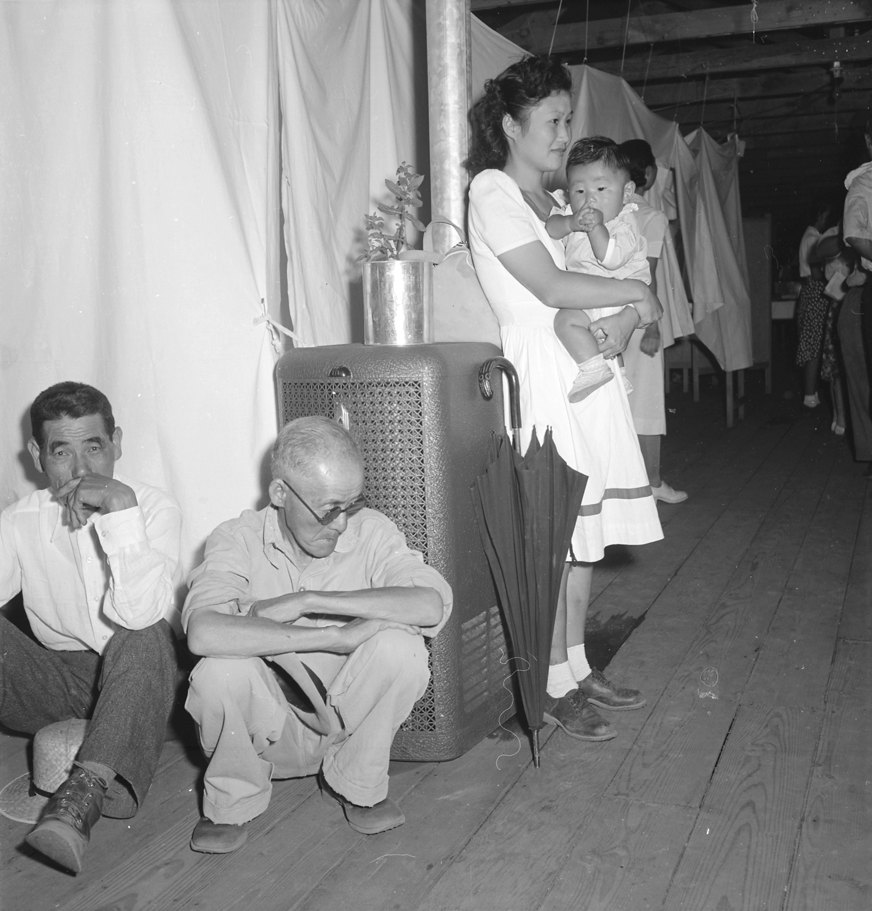 Scope and content: The full caption for this photograph reads: Manzanar Relocation Center, Manzanar, California. A typical interior scene in one of the barrack apartments at this center. Note the cloth partition which lends a small amount of privacy.